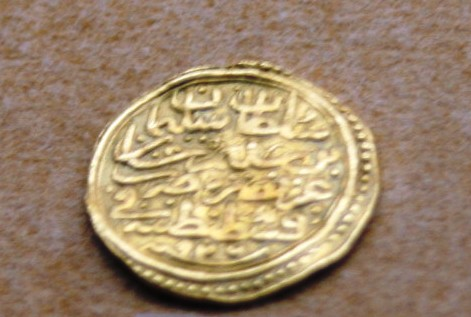 Coin with the name of Sultan Suleiman I Kanuni. Archeological museum of Istanbul.